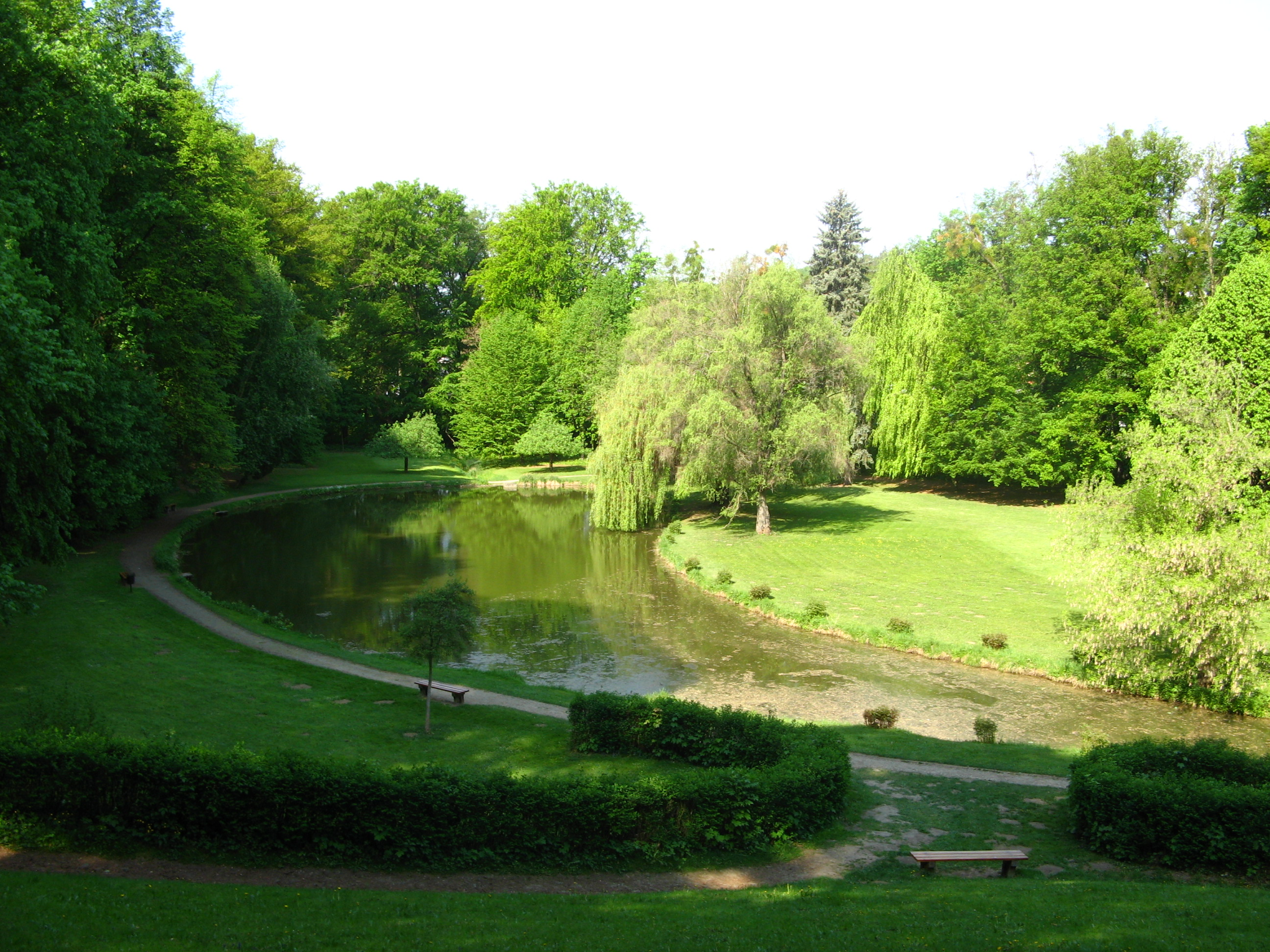 Vizovice in Zlín District, Czech Republic. Castle park.